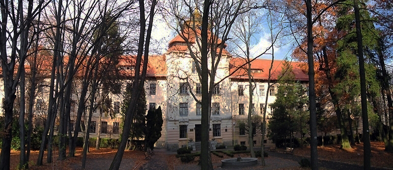 National Forestry University of Ukraine, main Buiding